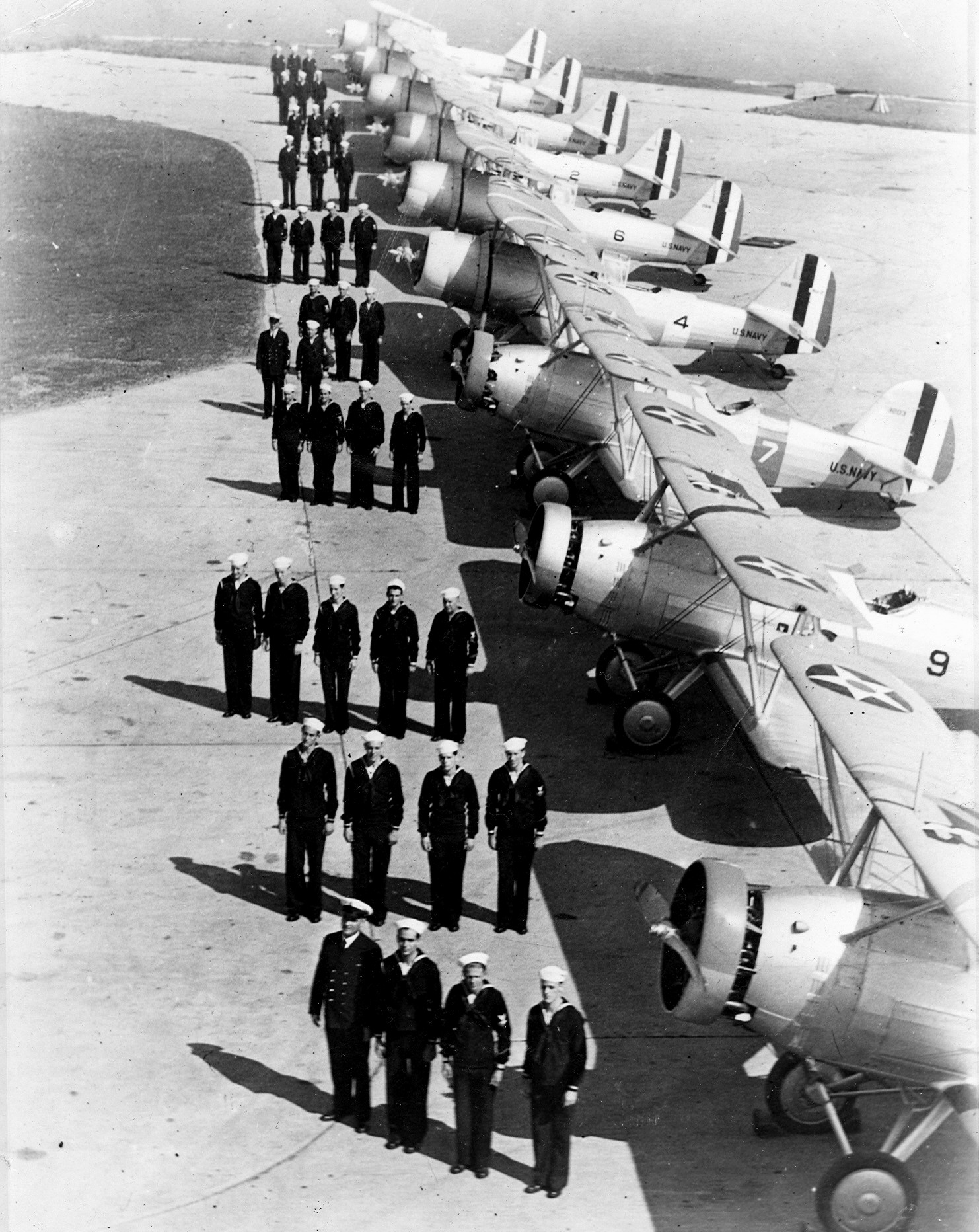 U.S. Navy personnel of reserve scouting squadron VS-2R lined up for inspection in front of Berliner-Joyce OJ-2 and Vought SBU aircraft (last 6, background) at the Naval Reserve Air Base (NRAB) Squantum, Massachusetts (USA), in 1938.